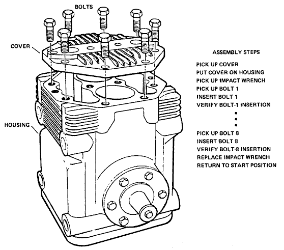 Original caption: Exploded view of SRI compressor cover assembly. (Rosen et al., 1978.) Category:Advanced Automation for Space Missions